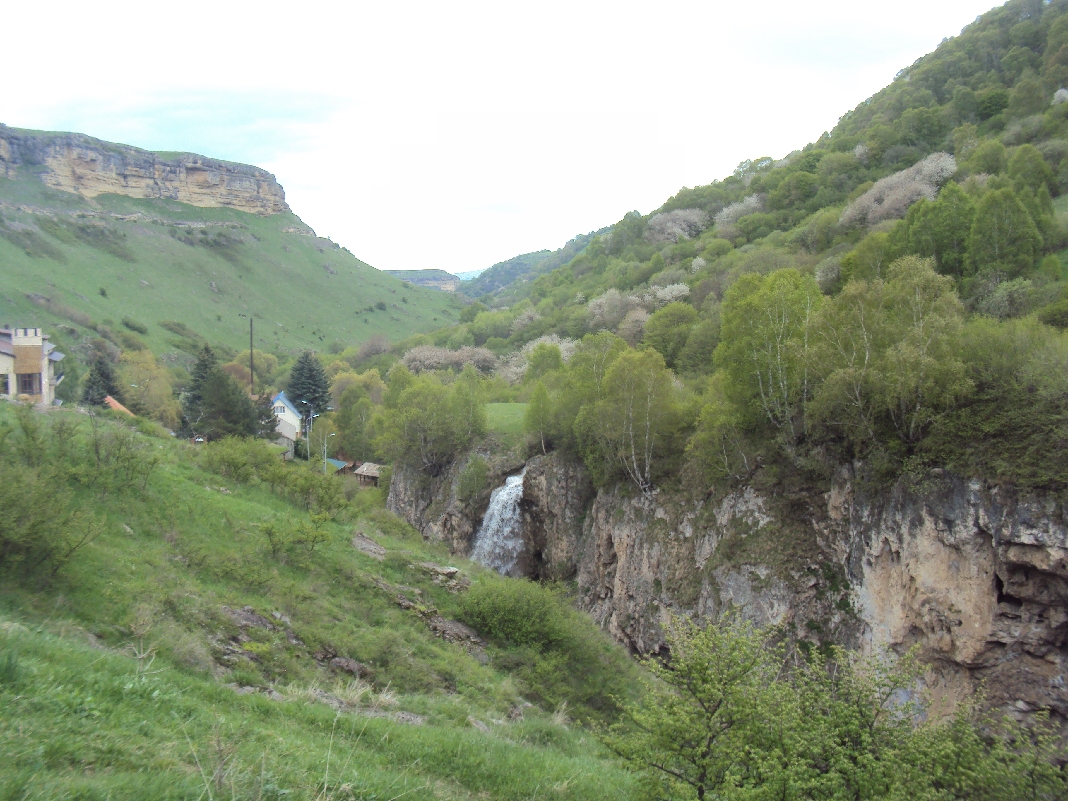 Honey falls, malokaratchaevsky district